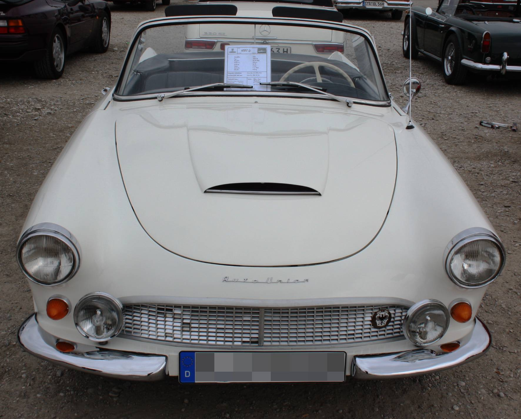 DKW 1000 SP - Year 1963